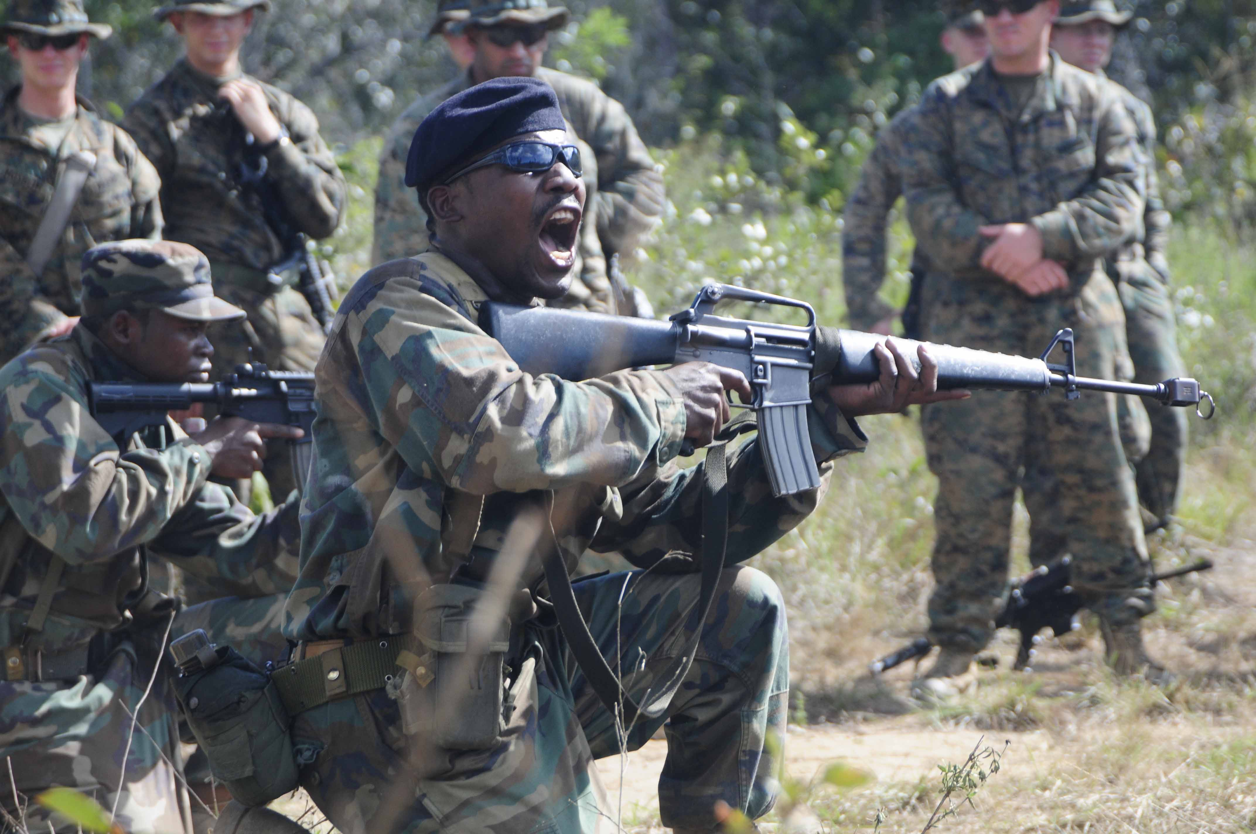 Cpl. Carlos Sanchez, ground combat element, Security Cooperation Task Force (SCTF), participates in a jungle survival information exchange at Pine Ridge Forest Reserve with the Belize defense force, Feb. 27. SCTF is deployed to the U.S. Southern Command (USSOUTHCOM) area of responsibility supporting Amphibious Southern Partnership Station 2011 (A-SPS 11), providing opportunities for participating nations to come together and join efforts to enhance regional maritime security. (U.S. Navy photo by Mass Communication Specialist 1st Class Brian S. Finney)